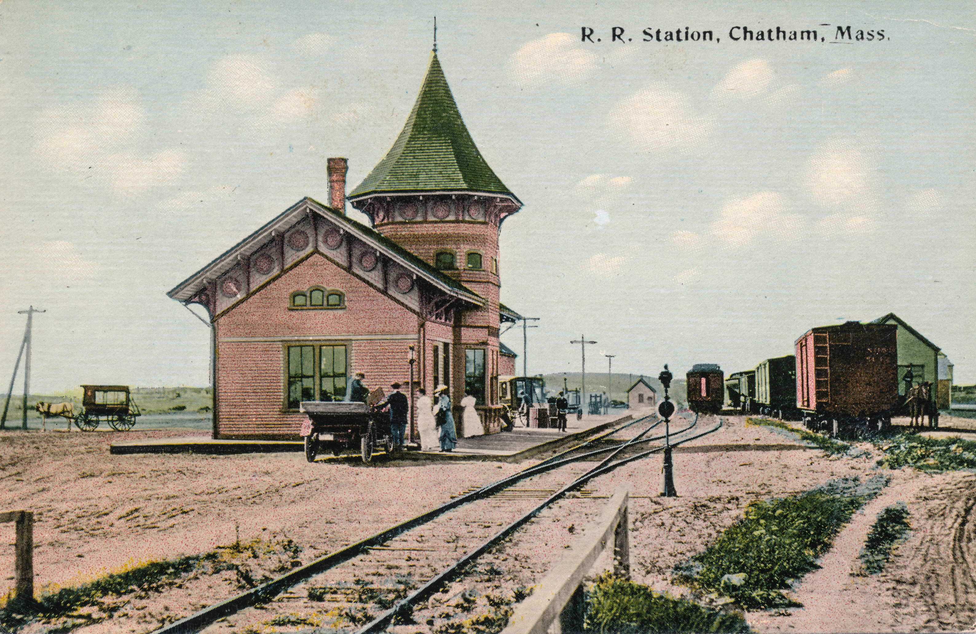 An early postcard showing the old railroad depot in Chatham, Massachusetts on Cape Cod.